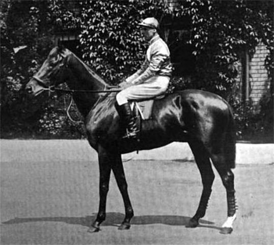 English derby winner St Amant, circa 1904. Unknown photographer.